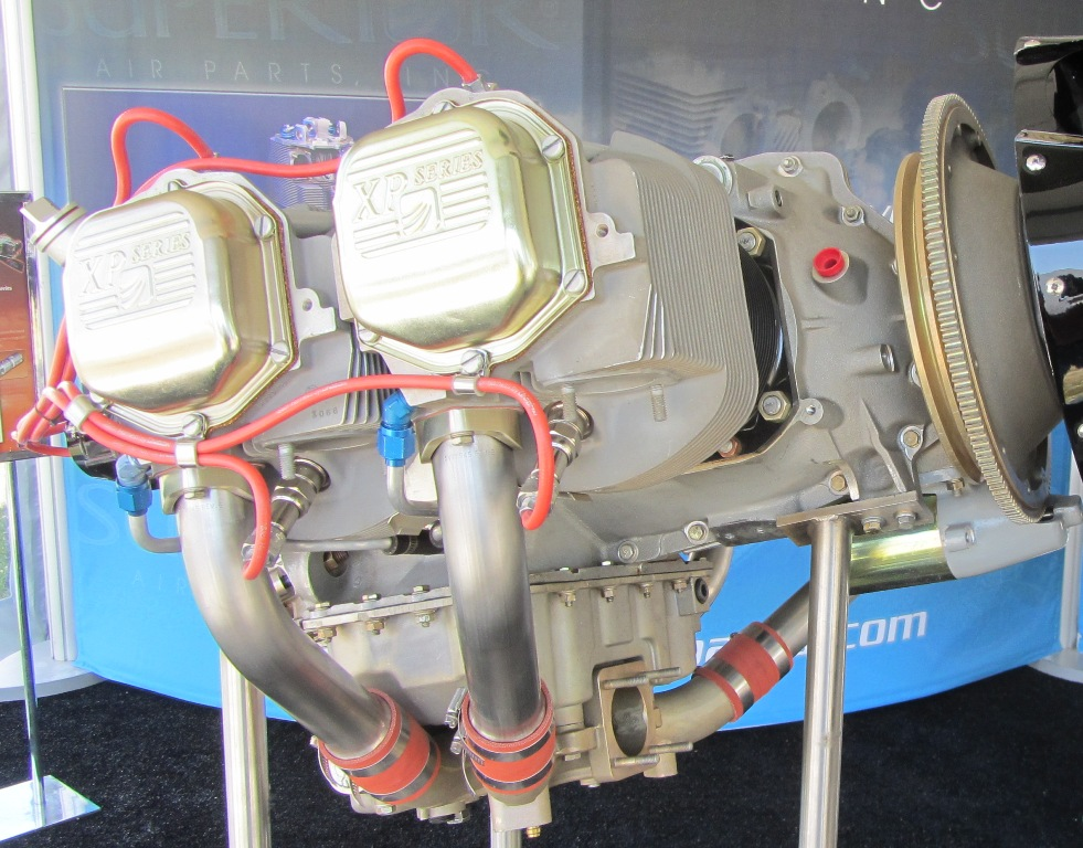 Superior XP360 engine